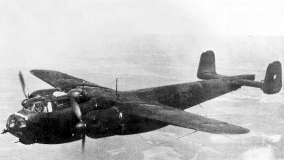 PictionID:38236053 - Catalog:Array - Title:Array - Filename:15_002318.TIF - -------Image from the Charles Daniels Photo Collection.----Album: German Aircraft.-----------PLEASE TAG these images with any information you know about them so that we can permanently store this data with the original image file in our Digital Asset Management System.-----------------SOURCE INSTITUTION: San Diego Air and Space Museum Archive